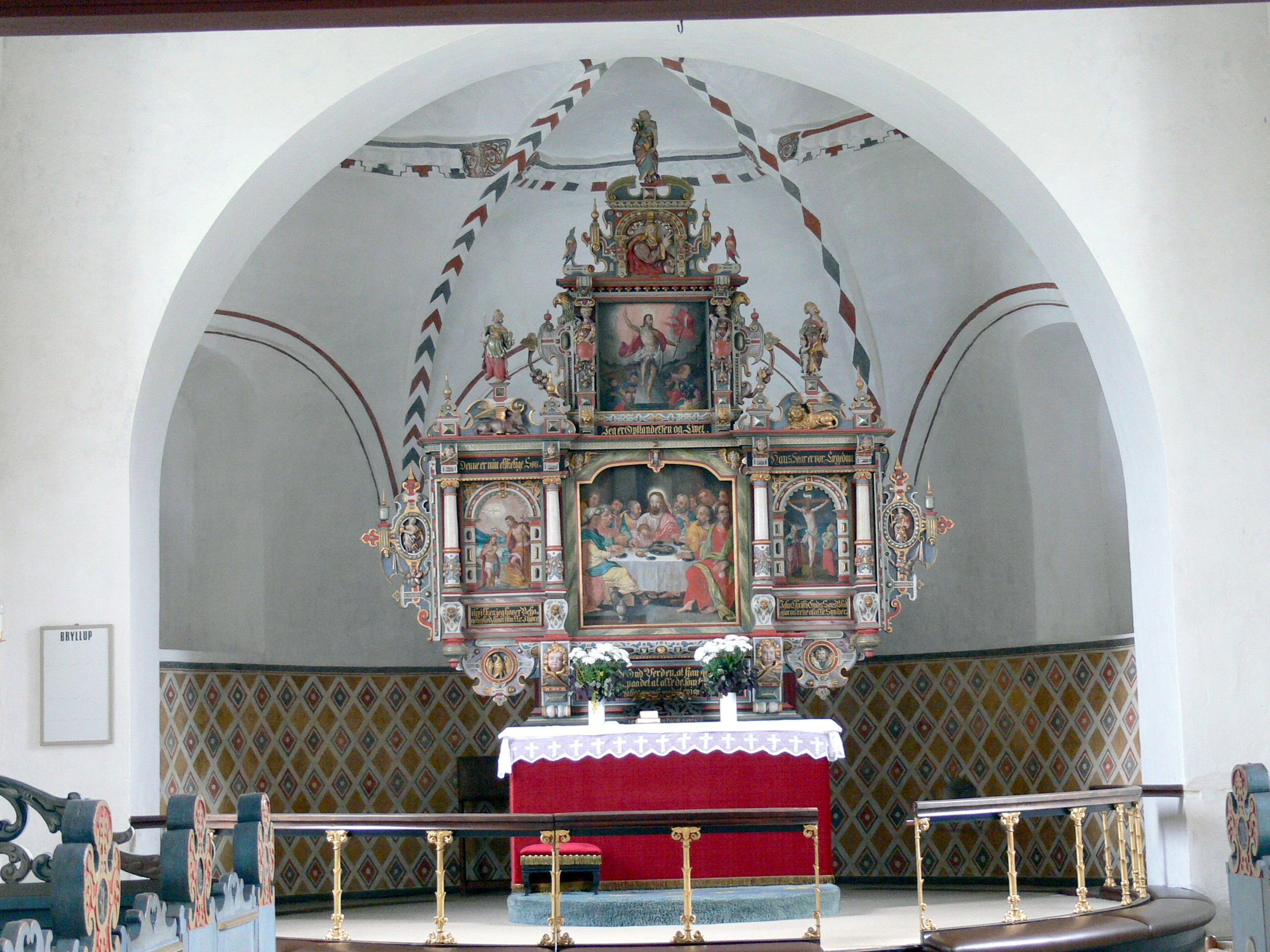 Brøns parish church. High altar ( 1630 )